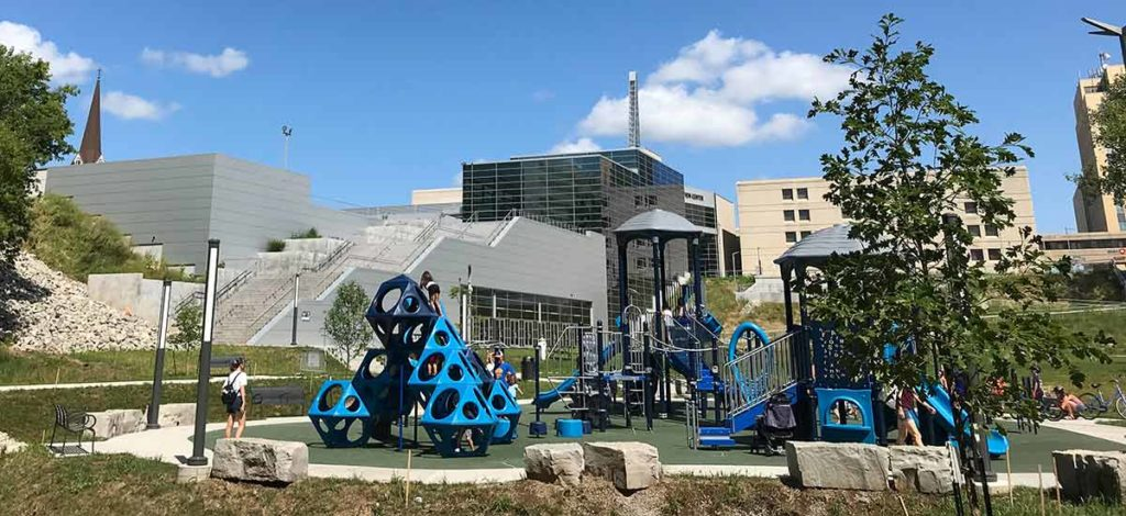 jones park